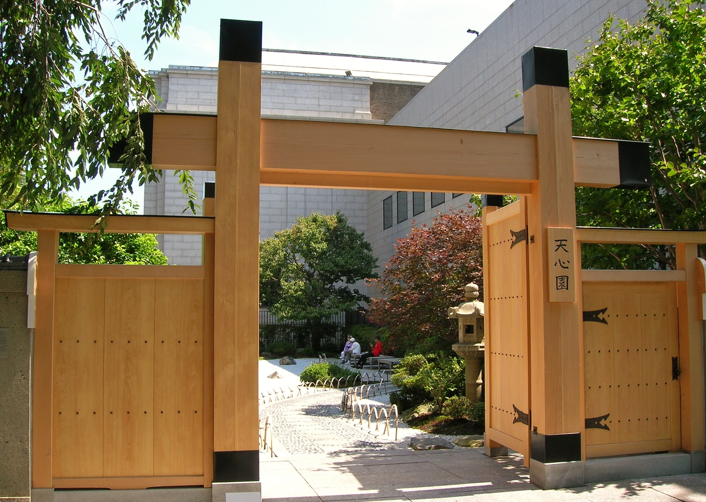 Photograph of kabukimon-style entrance gate to the Japenese garden, Tenshin-en, at the Boston Museum of Fine Arts. The garden was designed by Professor Kinsaku Nakane. The gate was built by Chris Hall for the garden's renovation and reopening in 2015. Photo taken 8/15/2015.